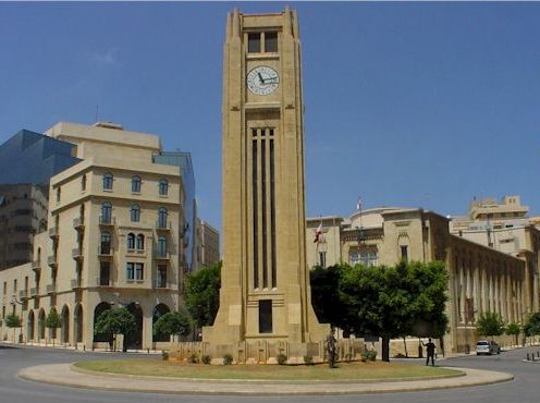 A Lebanese man wearing traditional cloths serving hubble bubble